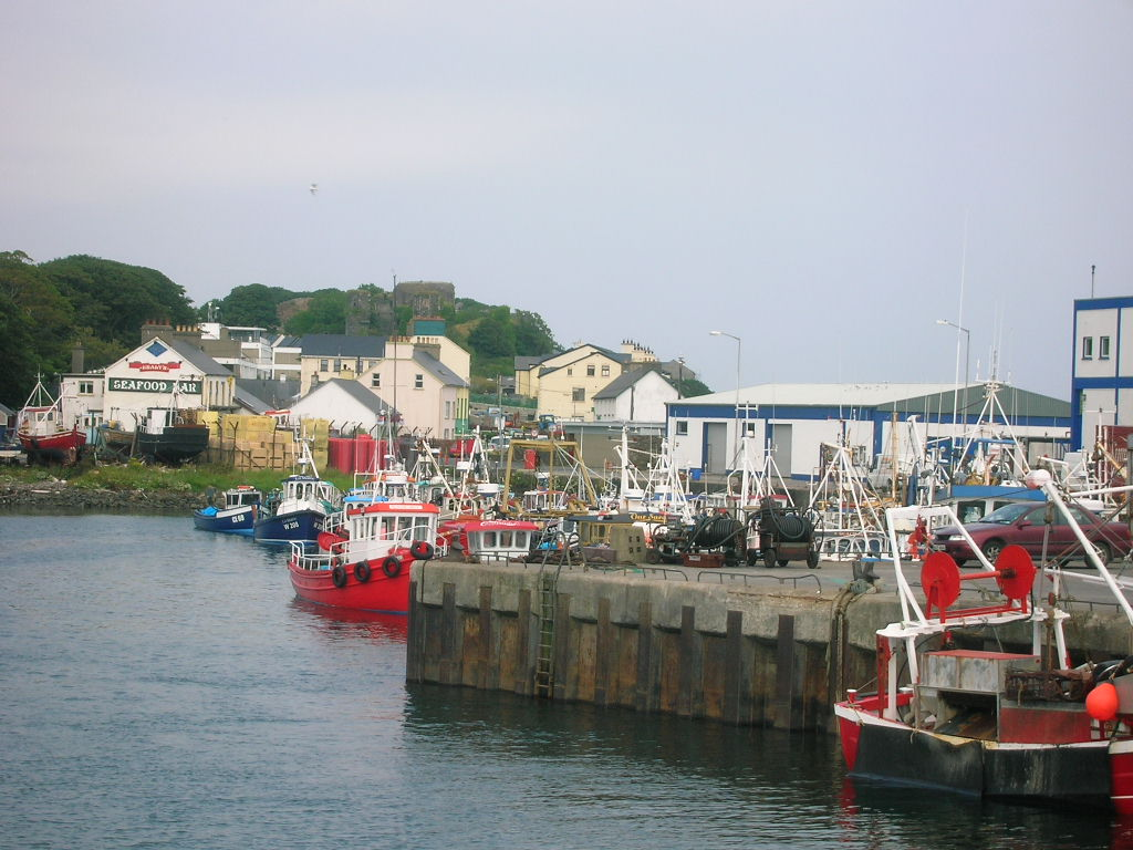 Coming into harbour